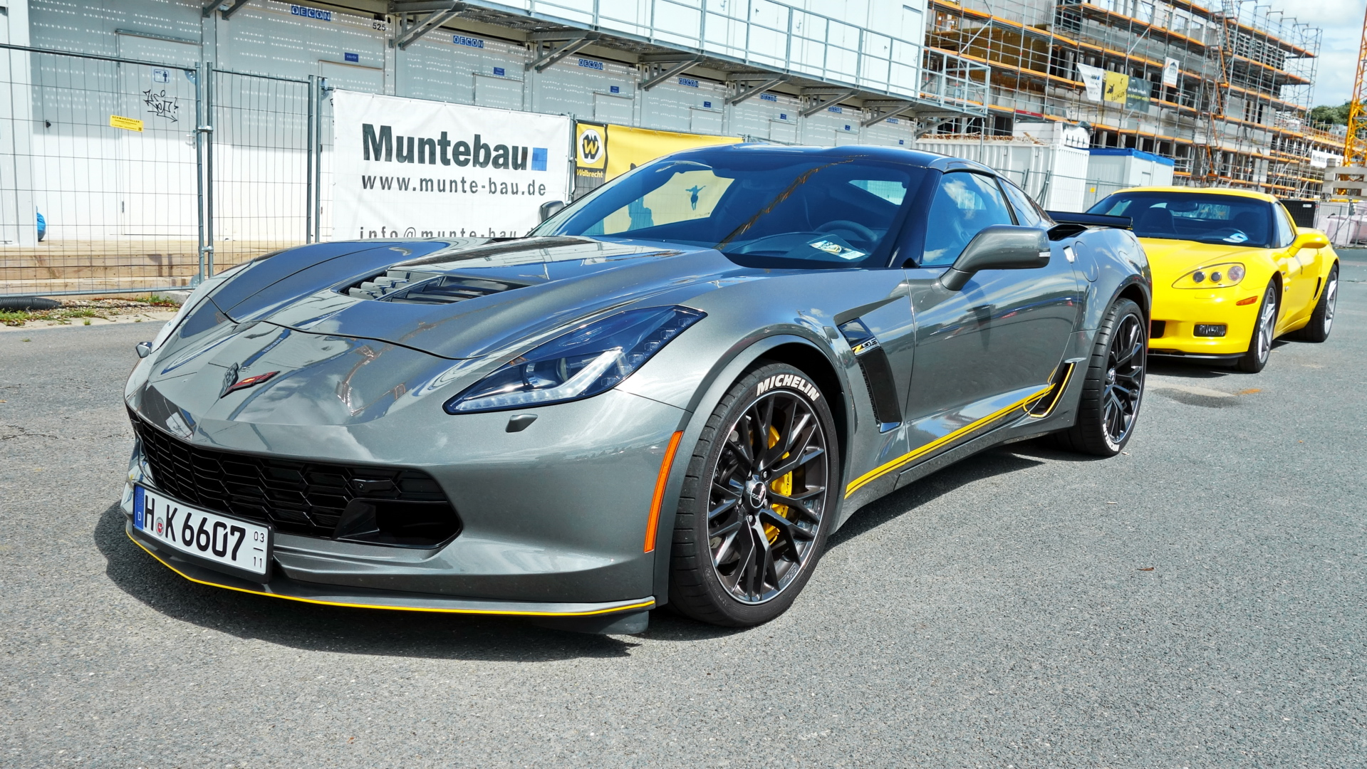 6.2L V8 659 PS 881 Nm 315 km/h Find more data, images, videos and related information in the "More Cars" database